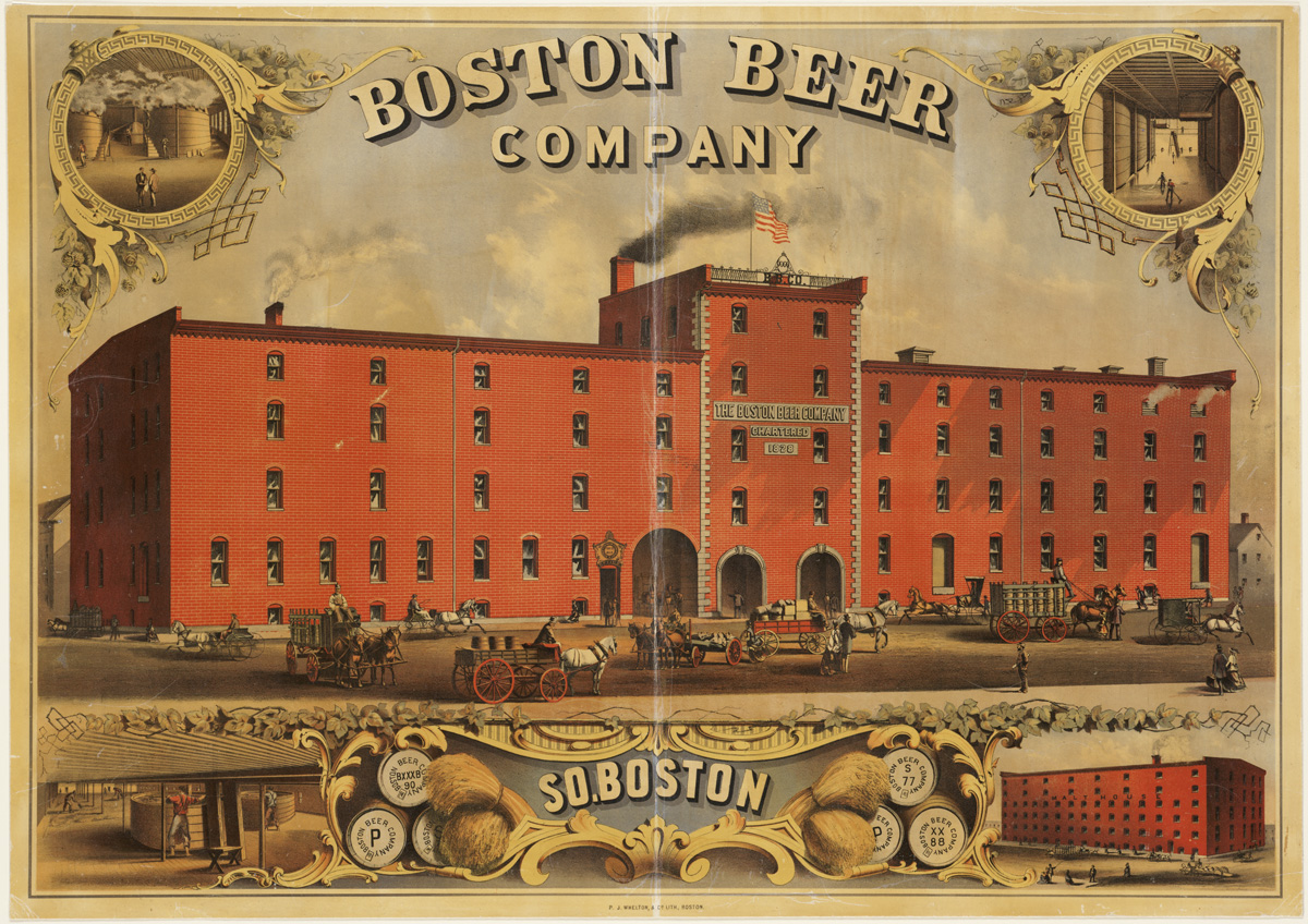 Boston Beer Company, So. Boston: File name: 07_06_000019 Title: Boston Beer Company, So. Boston Date issued: 1880 (approximate) Physical description: 1 print (poster) : chromolithograph Description: Poster for Boston Beer Co. Central image of red brick building, with beer wagons and carriages in foreground; smaller images of brewing process and building in four corners of image. Genre: Advertisements; Posters; Chromolithographs Subjects: Beer; Brewing industry Notes: P.J. Whelton Co. Lith. Location: Boston Public Library, Print Department Rights: No known restrictions Camera: Sinar AG Sinarback 54 FW, Sinar m License on Flickr: CC-BY-2.0 Flickr tags: bpl, boston public library, public domain, beer, brewery, poster, Boston_Brewery_Posters, dc:identifier=07_06_000019